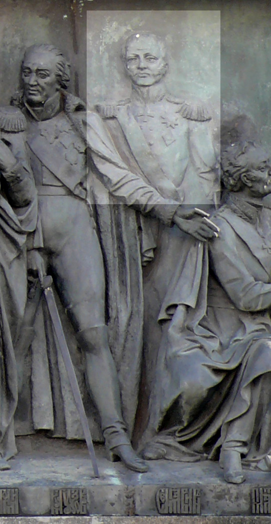 Dmitry Senyavin on the Monument «Millennium of Russia» in Veliky Novgorod